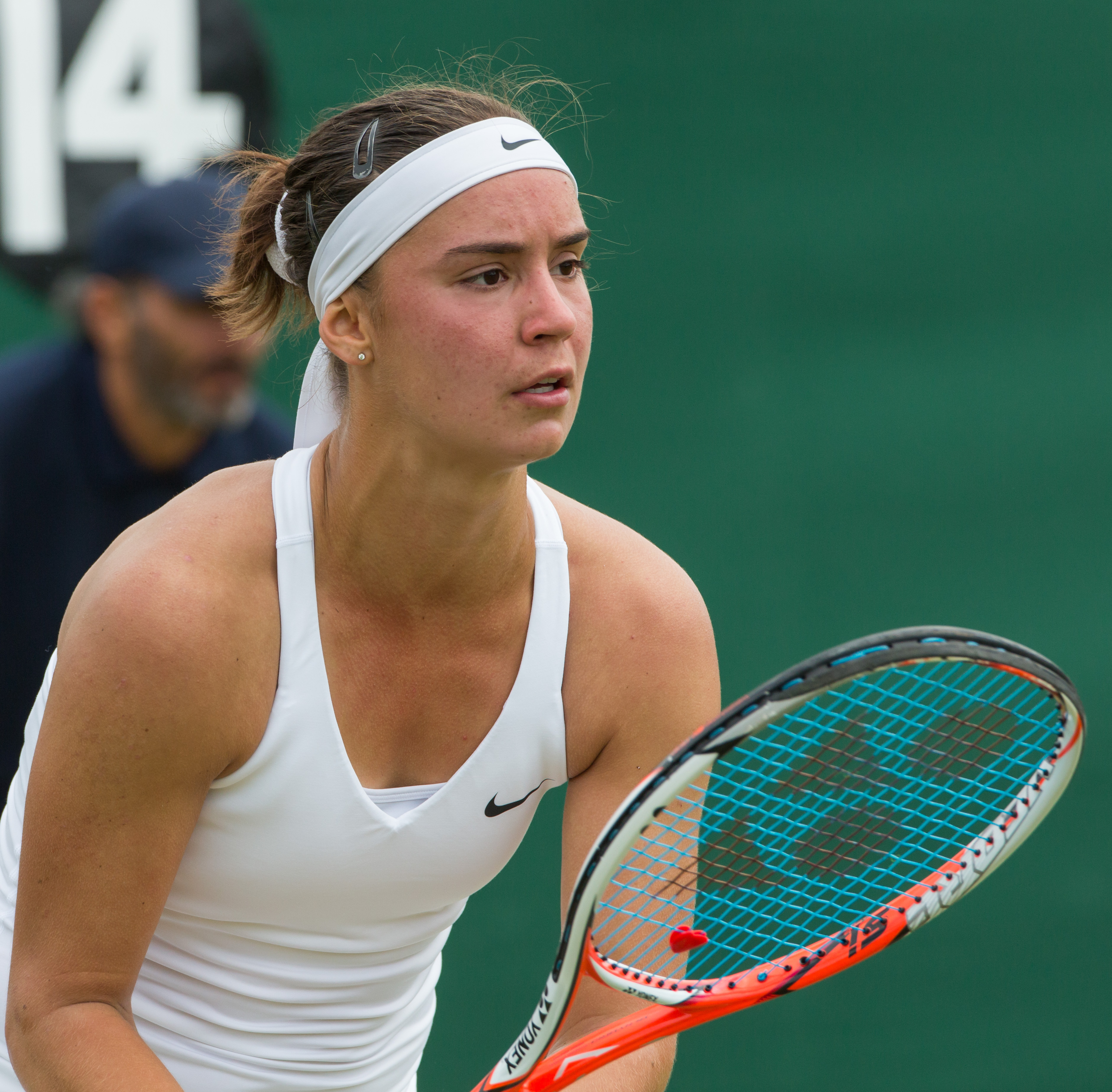 Anhelina Kalinina competing in the first round of the 2015 Wimbledon Qualifying Tournament at the Bank of England Sports Grounds in Roehampton, England. The winners of three rounds of competition qualify for the main draw of Wimbledon the following week.